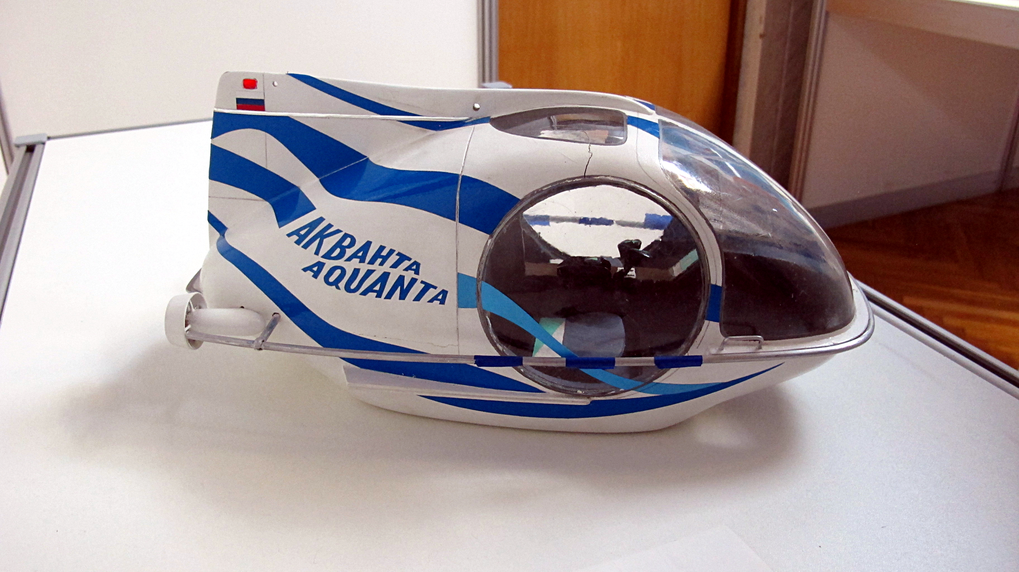 Wikitrip to MAI museum 2016-02-02